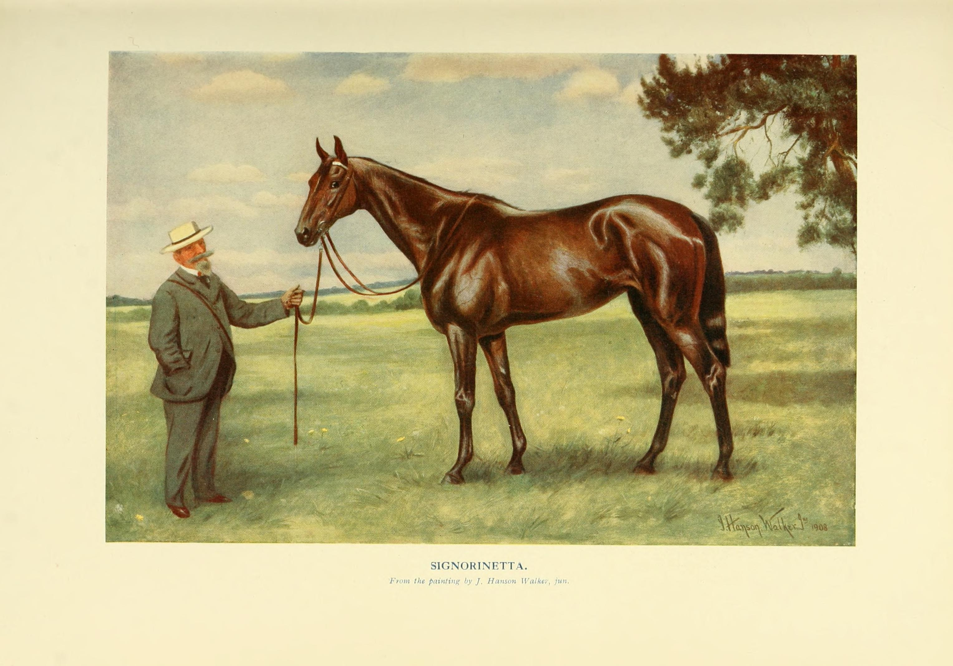 The new book of the horse / by Charles Richardson.